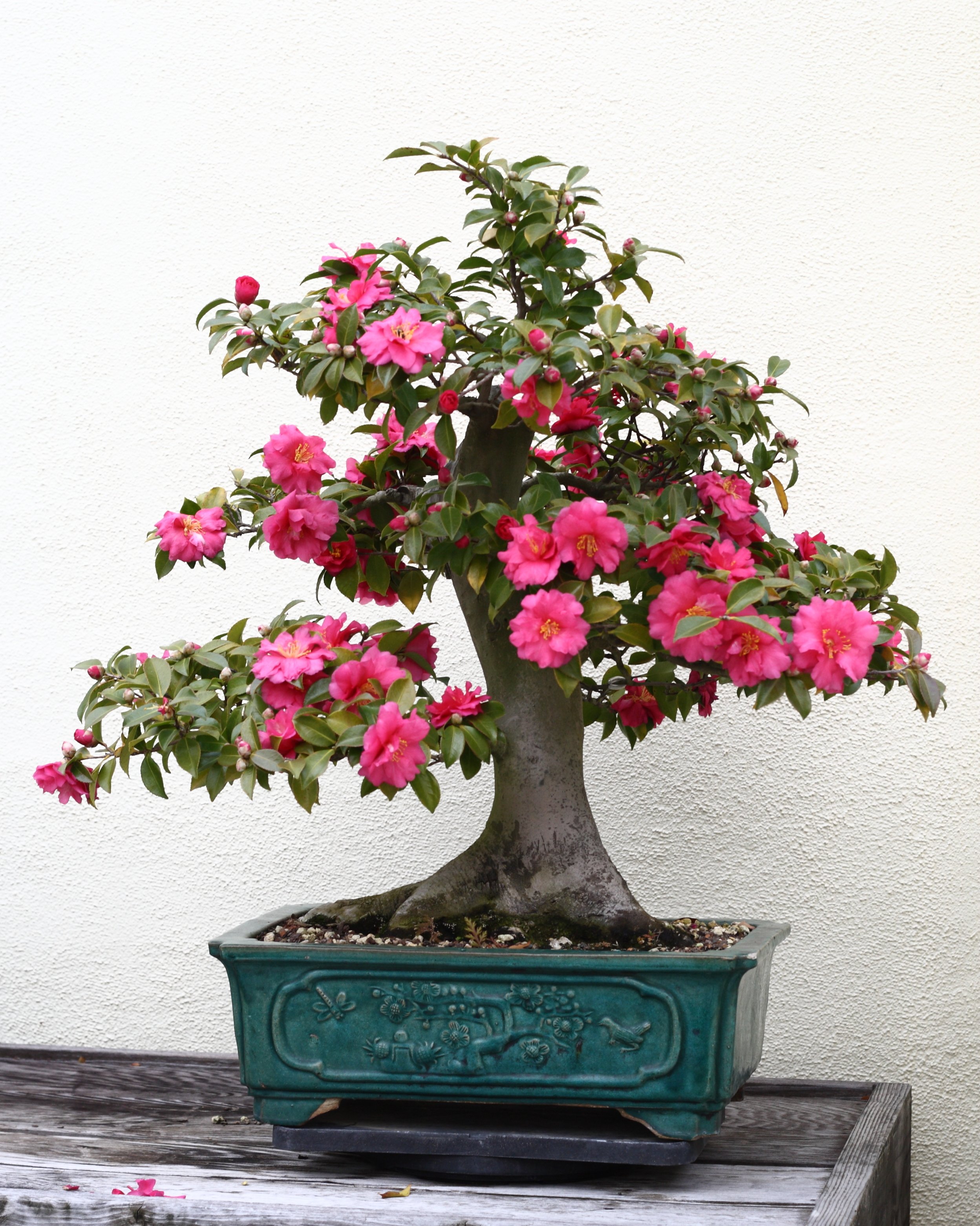 A Japanese Camellia (Camellia japonica) bonsai, Japanese Collection 55, on display at the National Bonsai & Penjing Museum at the United States National Arboretum. According to the tree's display placard, it has been in training since 1936. It was donated by Ginnosuke Sakuma.